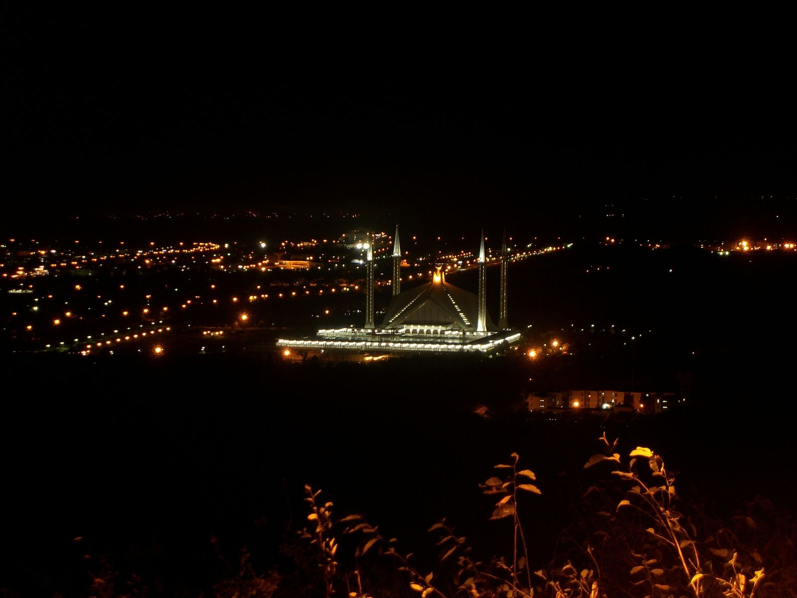 A night view of King Faisal Mosque and the surounding neighborhood in Islamabad, Pakistan.